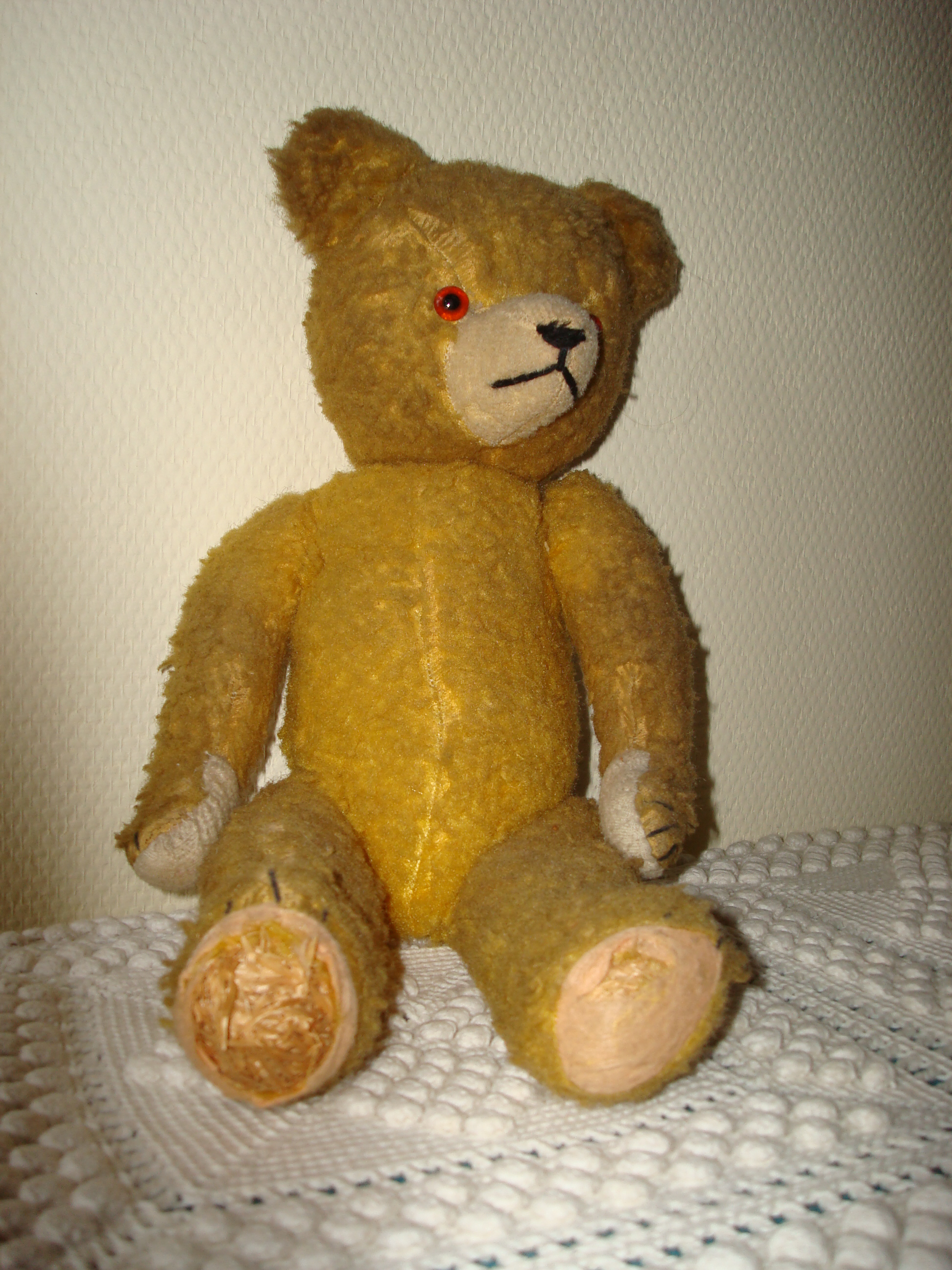 Teddy bear (end of the fifties), filled with straw, arms and legs straight and articulated with the body